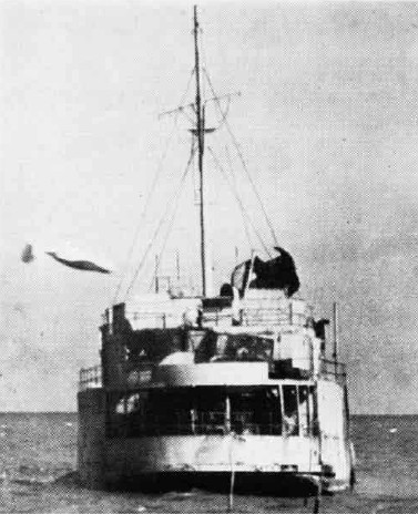 A U.S. Navy ASM-N-2 Bat guided bomb approaching a target in 1949-50. The target seems to be an old gunboat.